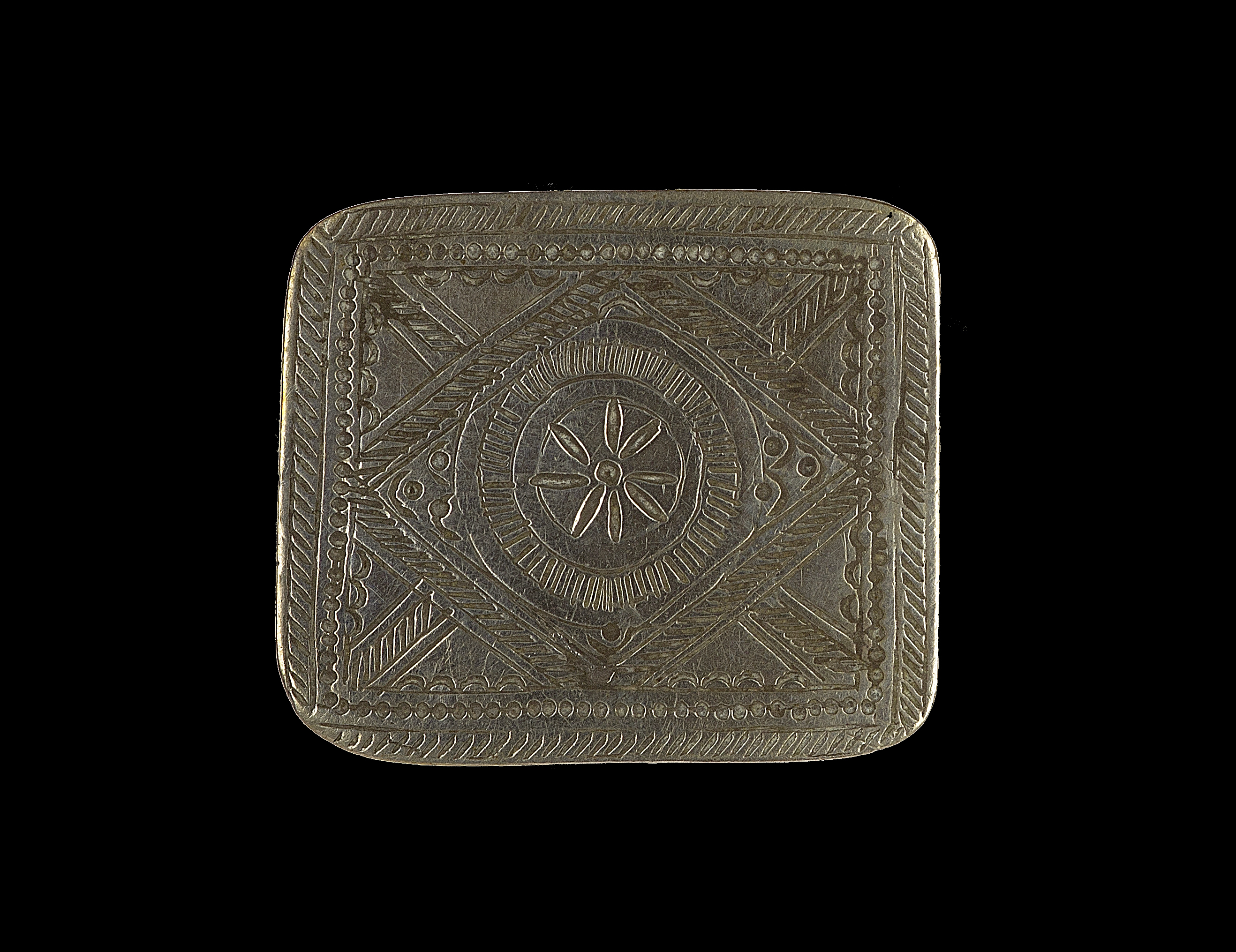 Rectangular engraved ring Population : Siwa Oasis Egypt. Collector and collection: Pierre-Henri Giscard, Institut des déserts Date of collection: 20th century date QS:P,+1950-00-00T00:00:00Z/7 Materials: silver Size : 3,0 x 2,5 x 1,9 cm